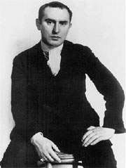 Jankel Adler (1895-1949), a Polish painter of Jewish descent